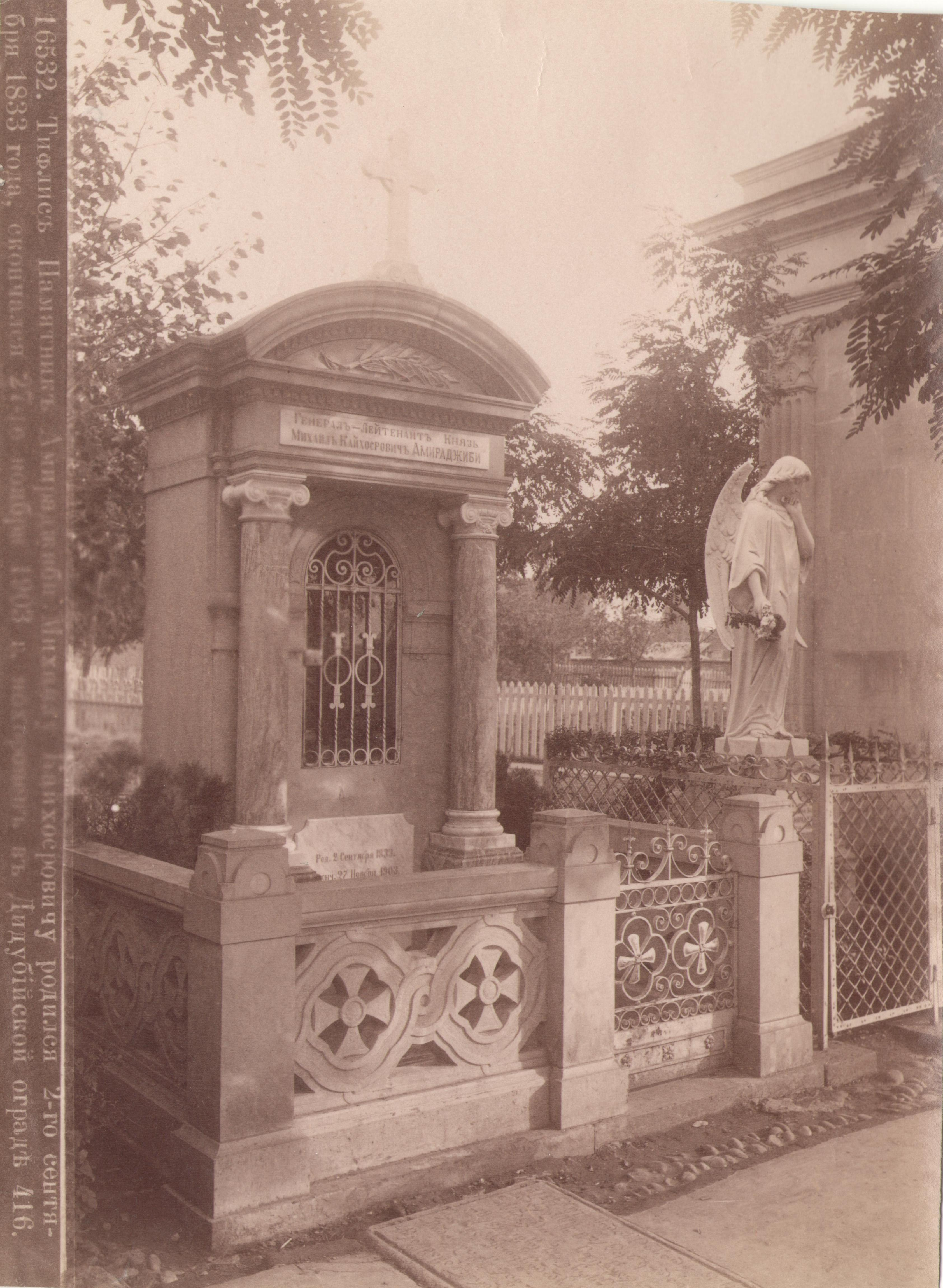 Mikheil Qaikhosro Amirajibi grave